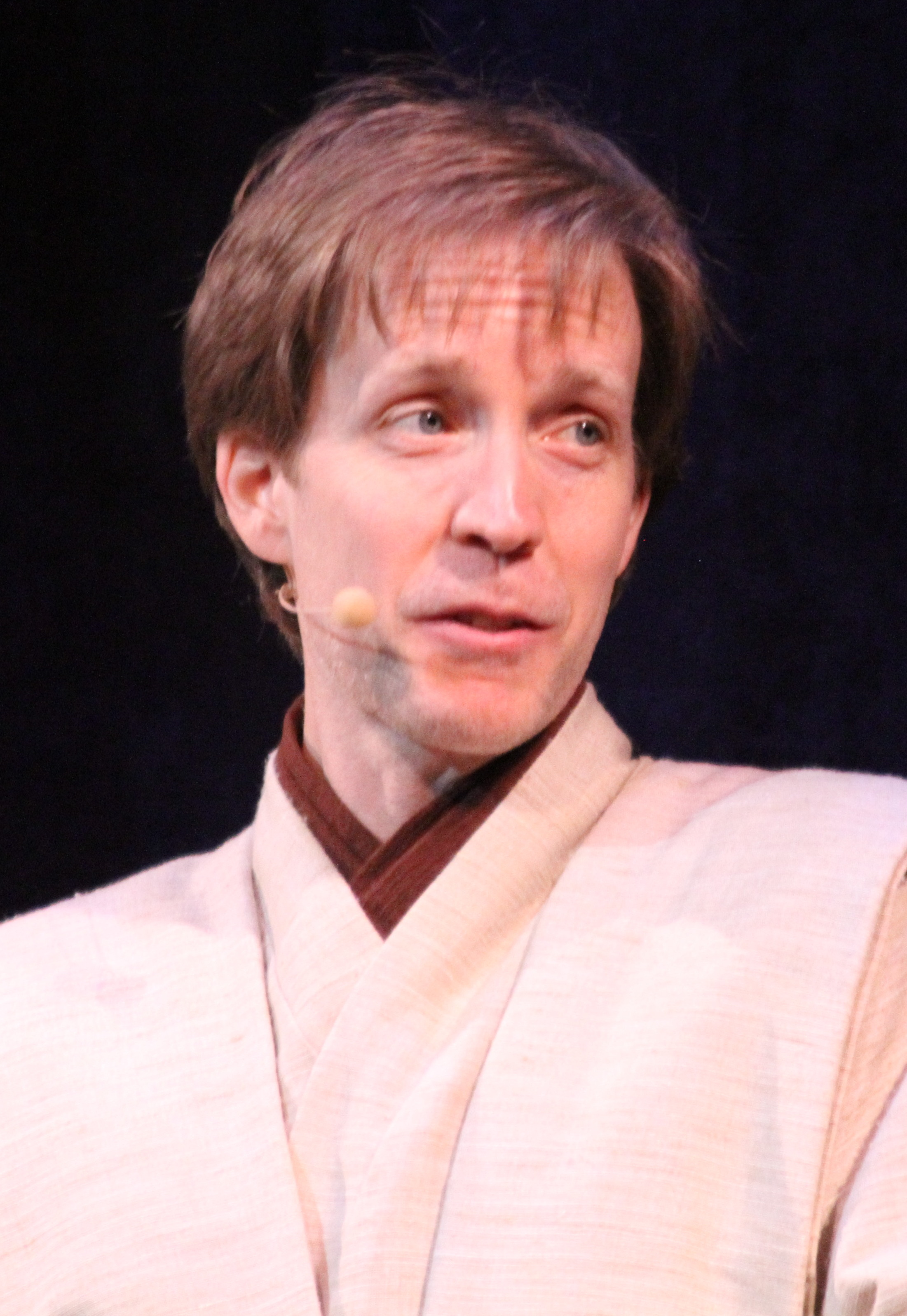 Voice actor James Arnold Taylor on May 26, 2012